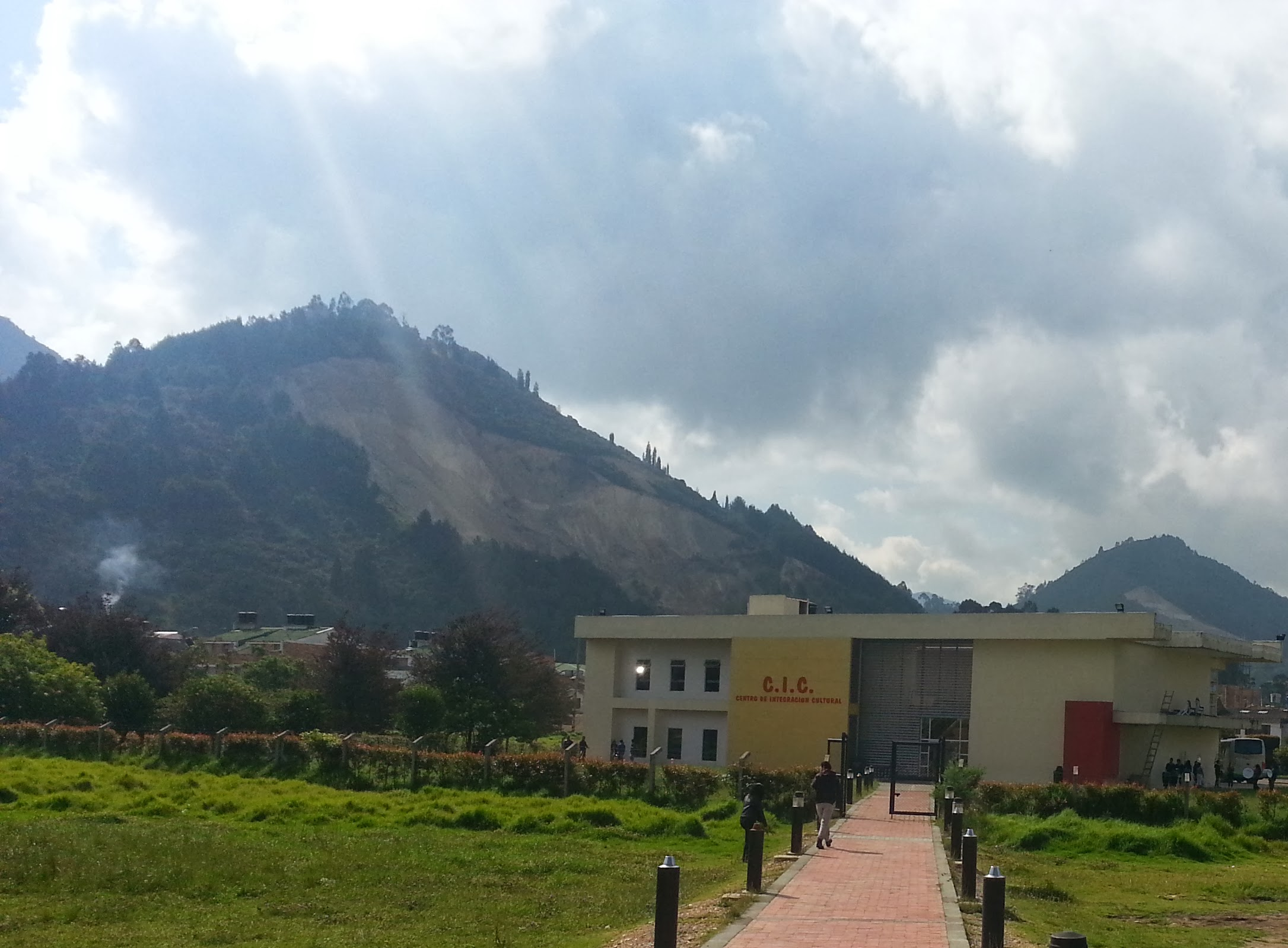 Centro integracion cultural, Sopo, Cundinamarca Colombia